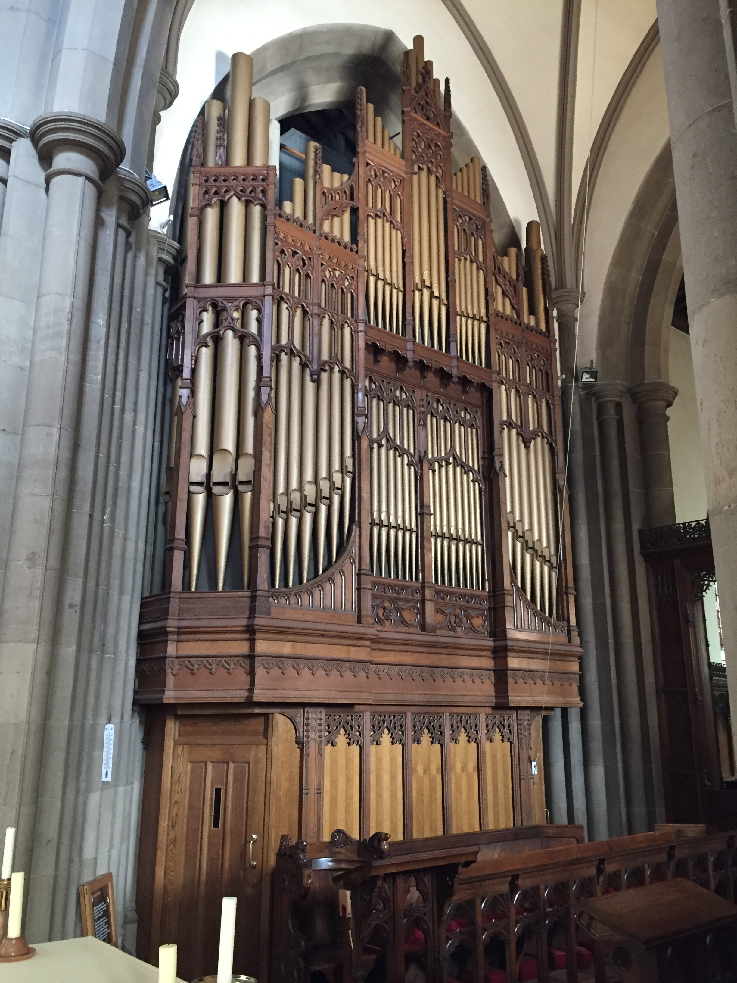 Organ by Wiliam Hill, rebuilt by Brindley & Foster in 1883, Jardine of Manchester in 1954 and Sixsmith and Son of Ashton under Lyne 1989